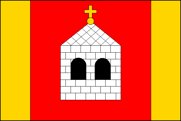 Municipal flag of Blatnice pod Svatým Antonínkem village, Hodonín District, Czech Republic.